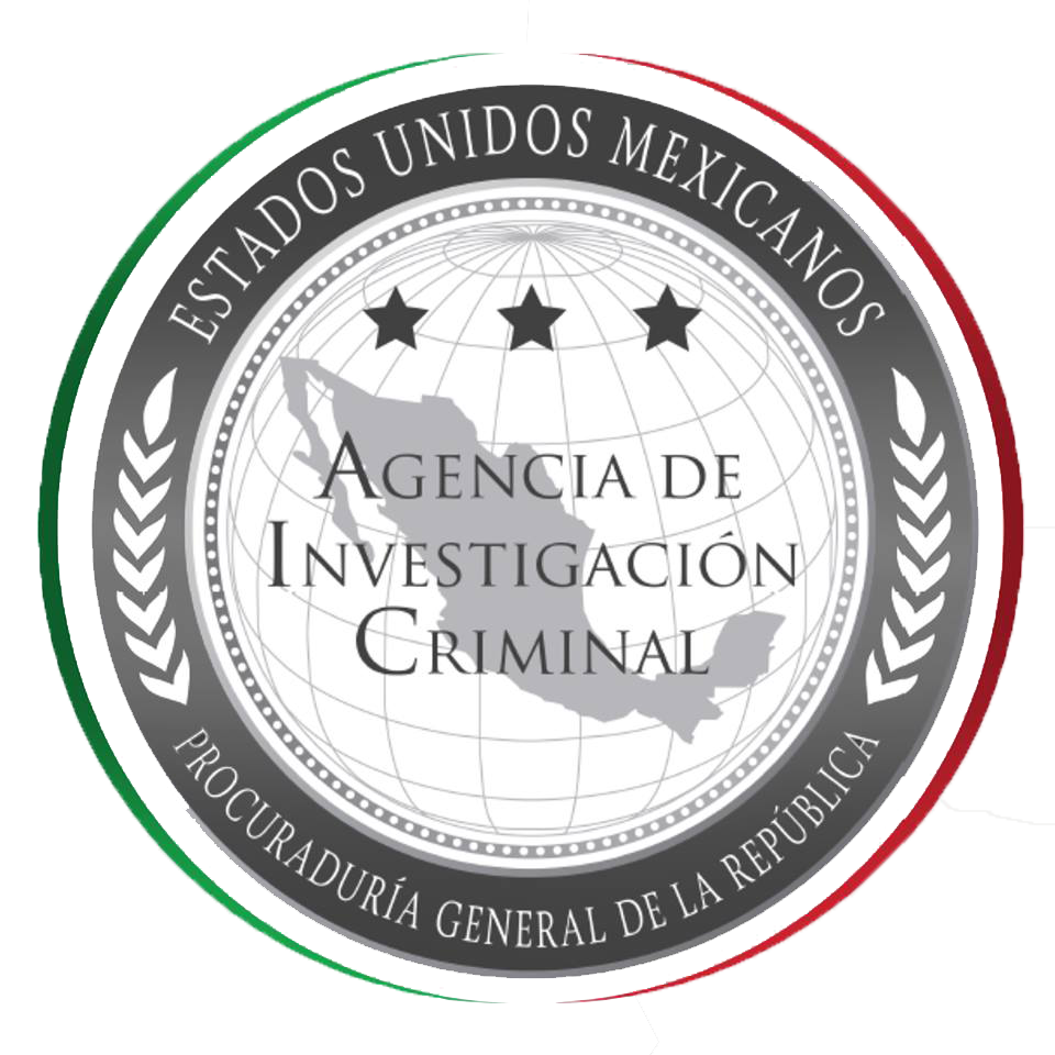 Logo of the Criminal Investigation Agency, from the Attorney General of the United Mexican Stated.